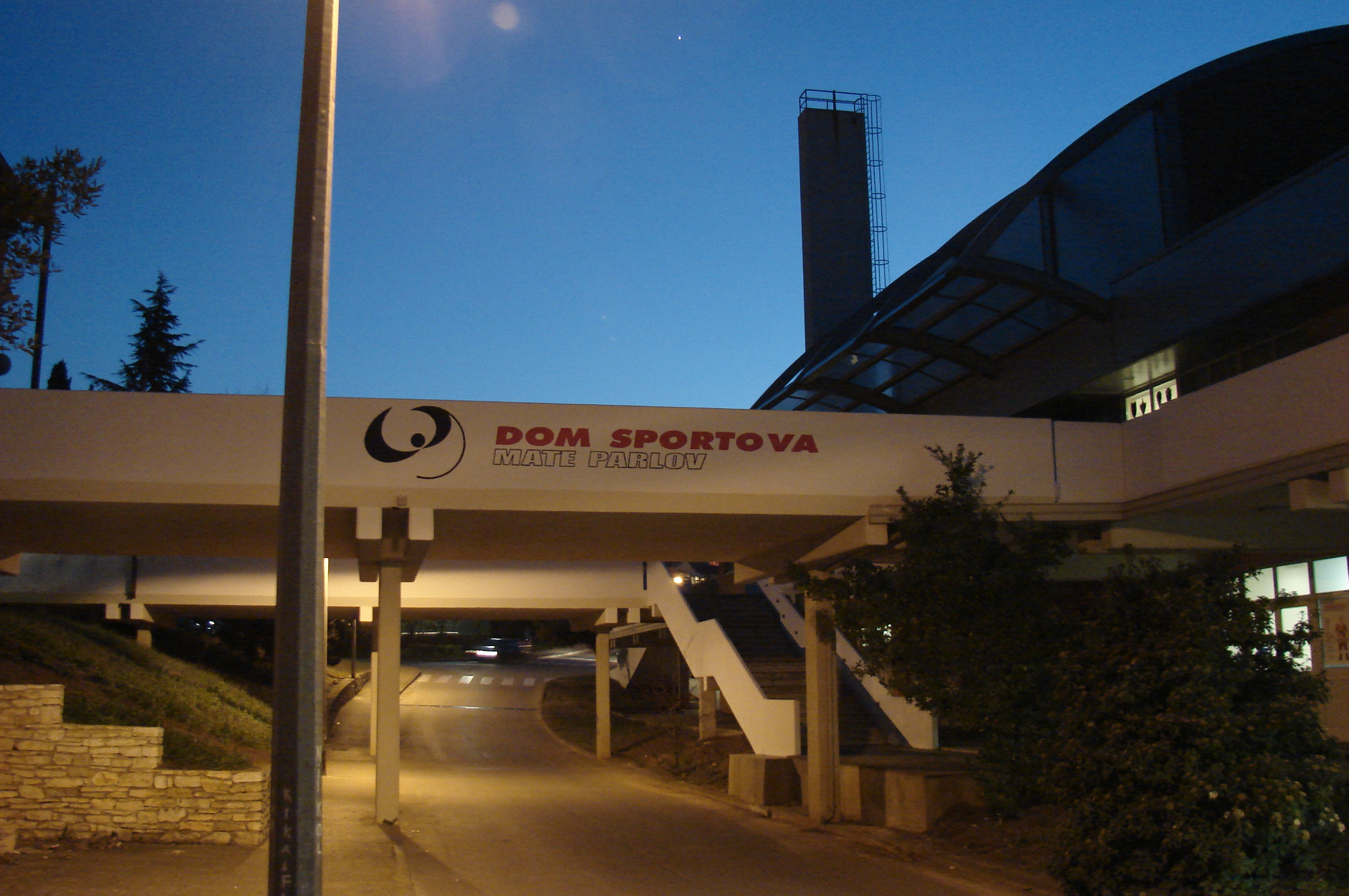 Mate Parlov Sports Hall in Pula viewed from Galiotova Street.